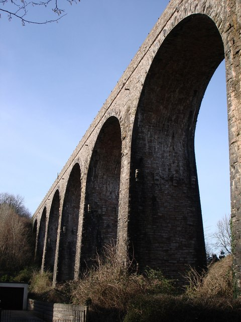 Below Hookhills Viaduct, near Broadsand beach I K Brunel's Hookhills Viaduct is a fine piece of railway architecture which dominates the nearby houses with its presence. However, peace generally prevails in the road down to the beach over which it stretches, punctuated only occasionally by the puffing of the steam train and its whistle.